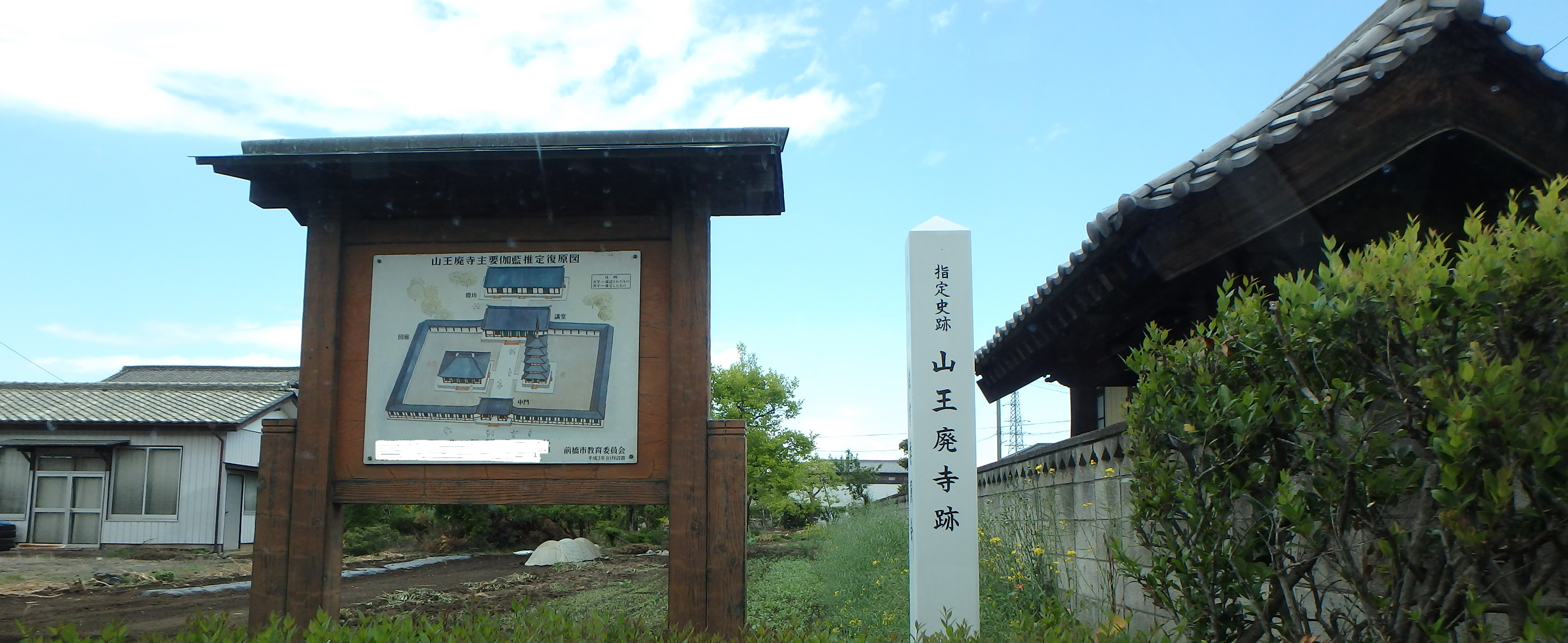 Sannō Ruined temple, Gunma Prefecture,Japan